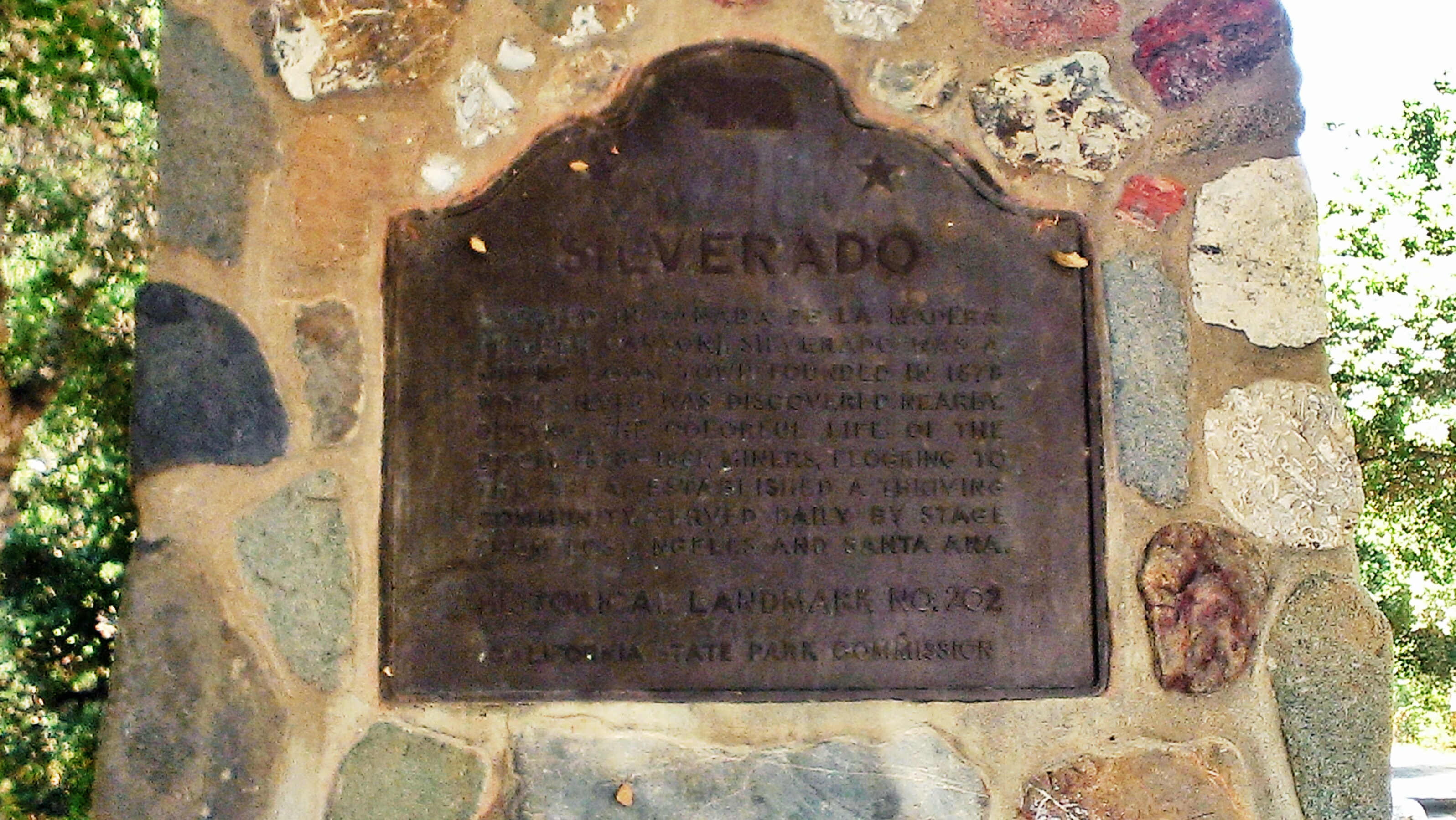 Silverado